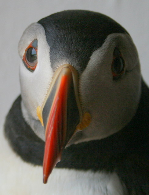 A Puffin Portrait Muffin the Puffin poses for a picture during his convalescence at Seatown, Lossiemouth, Morayshire. It is generally only the sand eel that is offered this rare, privileged view of the Sea Parrot.